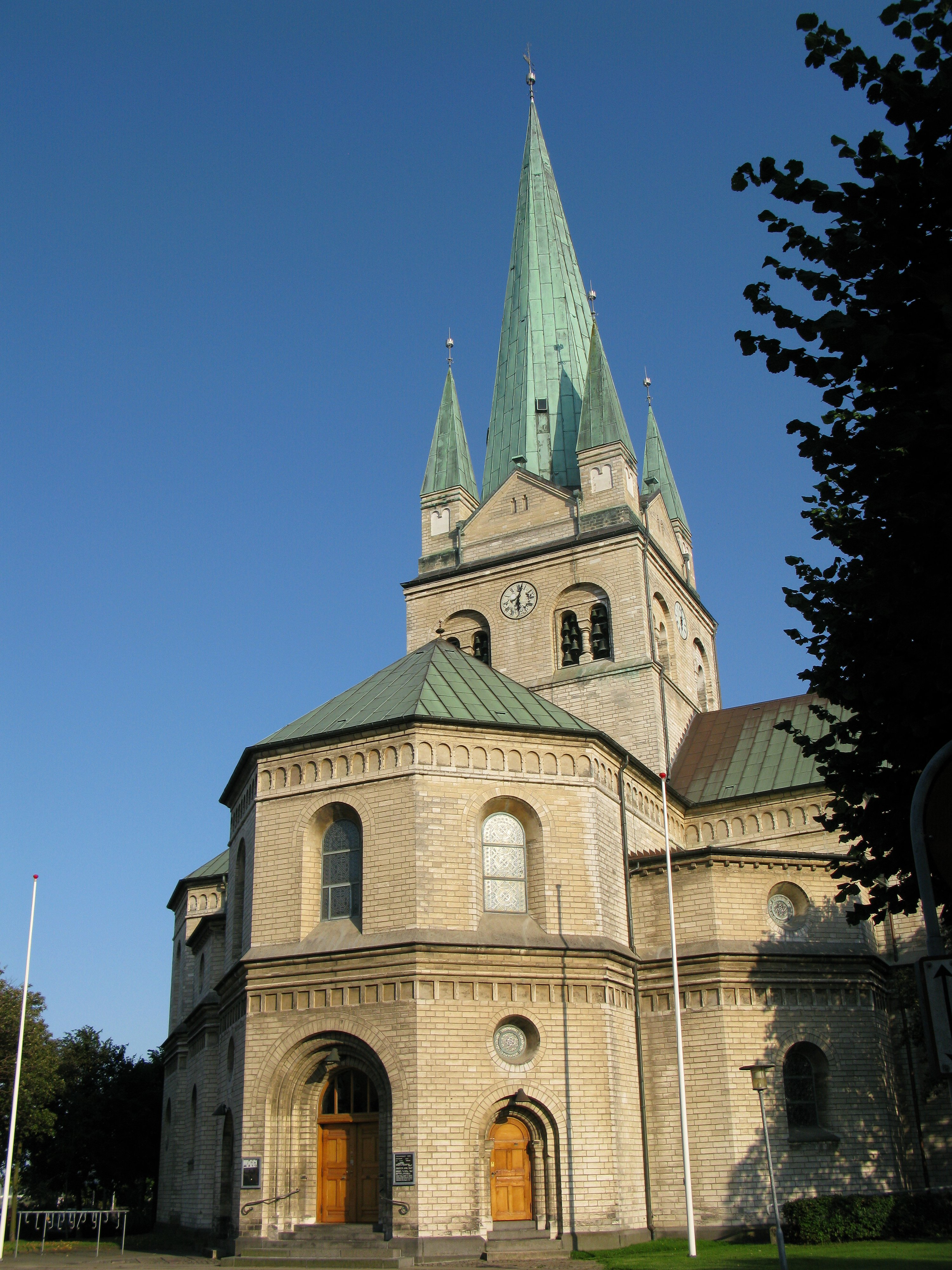 outside church of Frederikshavn, Northern Denmark